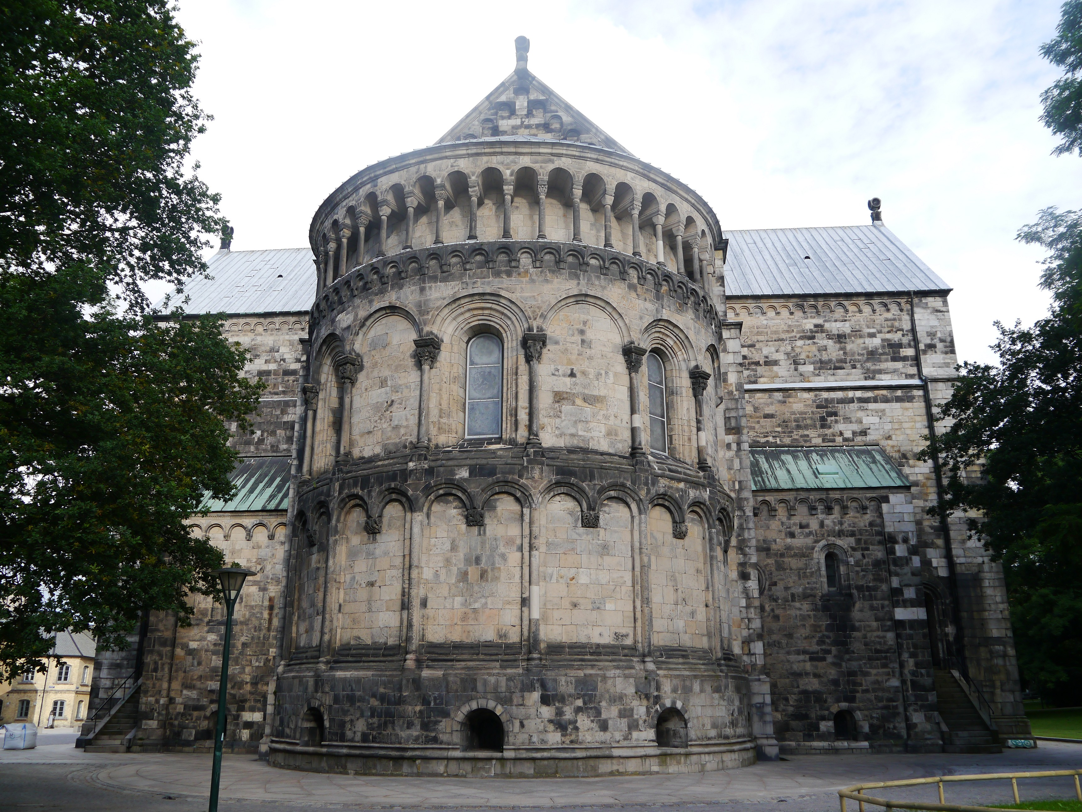 Choir of the Cathedral, Lund, Skåne County, Southern Sweden